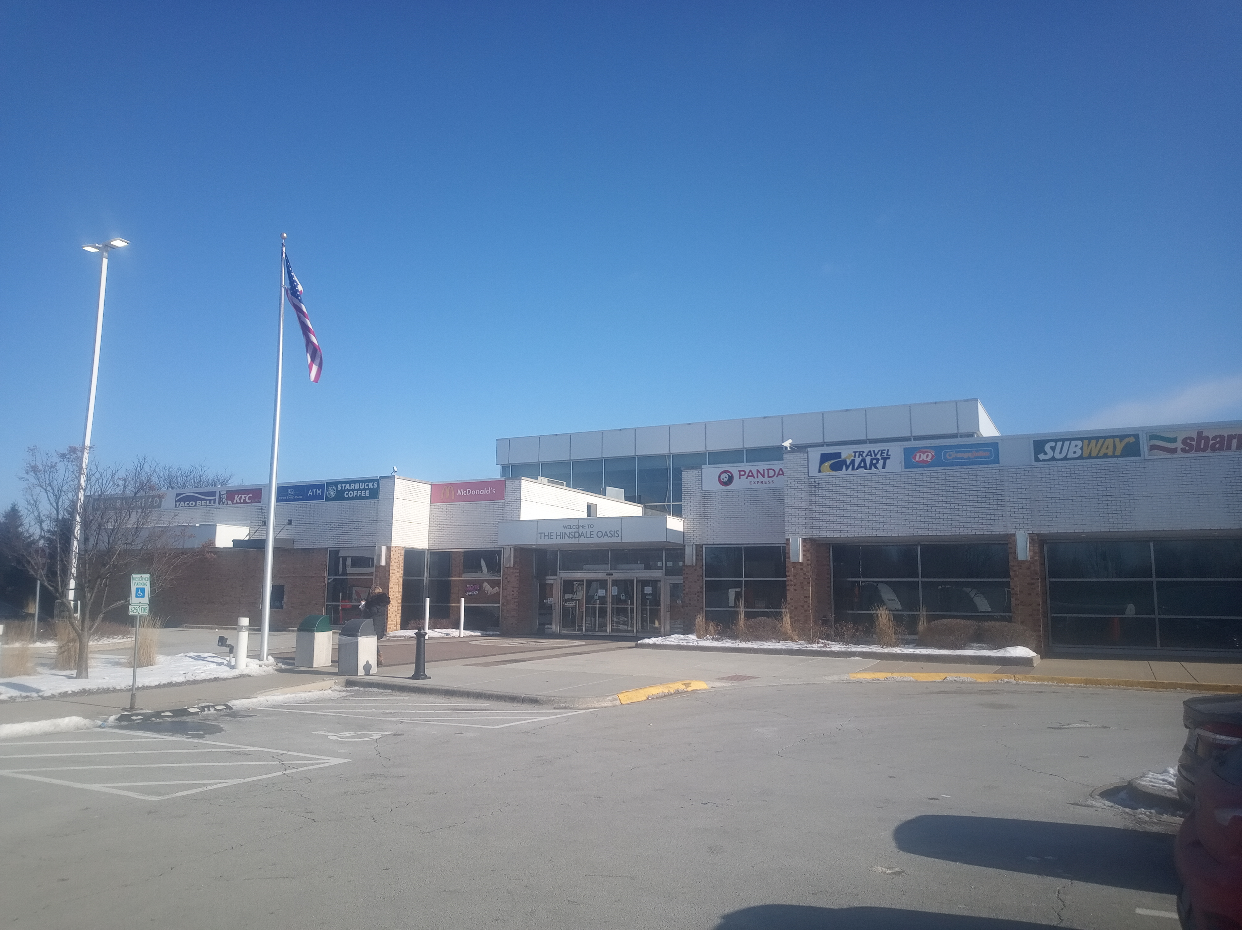 Entrance to the Hinsdale Oasis fir southbound travelers on the Tri State Tollway in suburban Chicagoland.